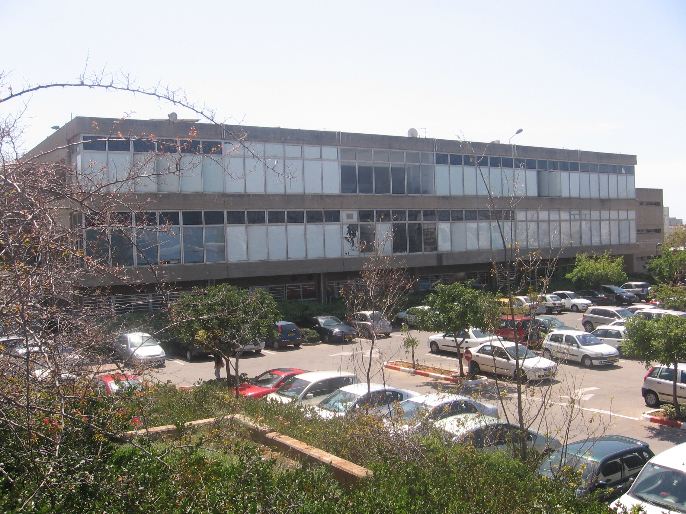 Mexico building of arts in Tel Aviv University (TAU).